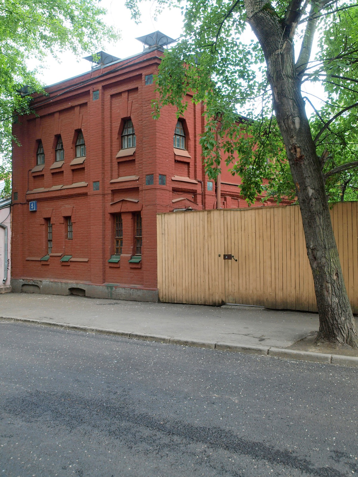 Moscow, Novovagankovsky Lane.